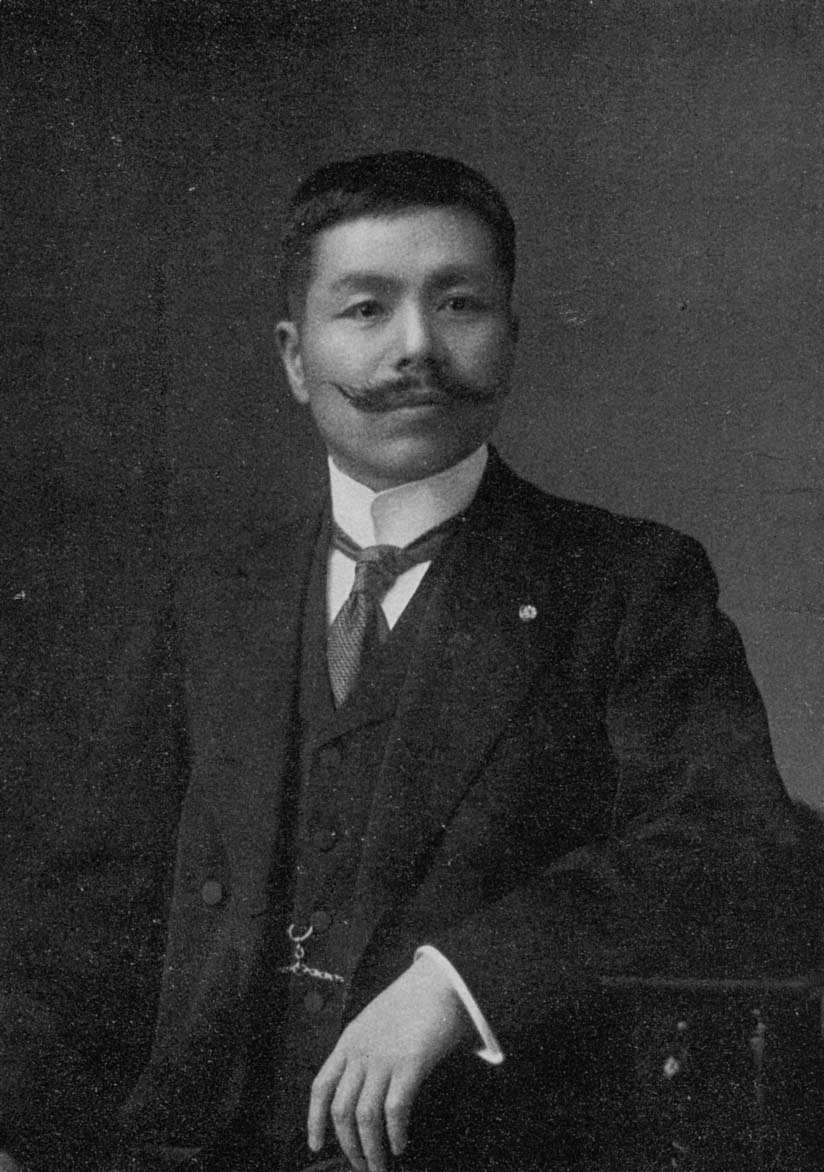 M. Niida, Professor of Code of Civil Procedure in the Tokyo Imperial University.